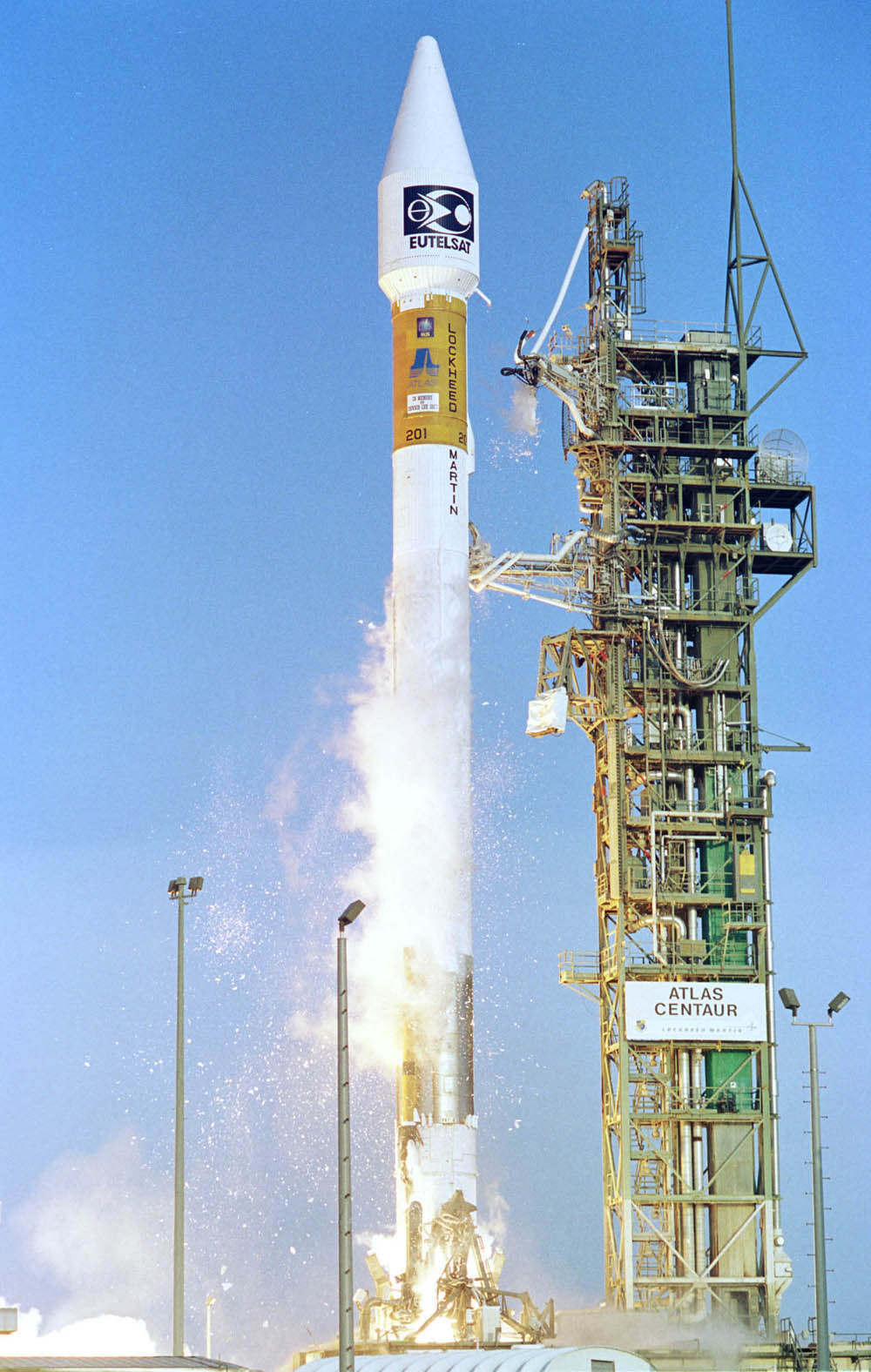 Atlas IIIA Centaur on its first launch (May 24, 2000) - An Atlas III space lift vehicle (AC-201) made its debut on May 24, 2000, in a dramatic liftoff powered by the new Russian RD-180 engine. The liftoff occurred at 7:10 p.m. Eastern Daylight Time, followed by successful separation of the W4 spacecraft and insertion into geosynchronous transfer orbit just under 29 minutes later. The AC-201 flight marks the first Russian rocket engine to be provided by Pratt & Whitney and is the first Russian rocket engine to power an American launch vehicle. A P&W upper stage engine, the RL10 (RL10A-4-1B model), powered the Atlas first single-engine Centaur configuration.